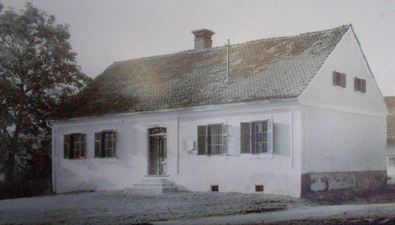 The house of the Pável-family in Cankova